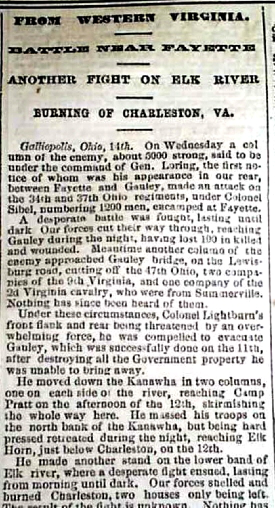 Article from the Boston Daily Advertiser, 1862, month and date unknown, about the capture of Charleston, WV by Confederate Brig. Gen. William W. Loring on Sept. 13, 1862